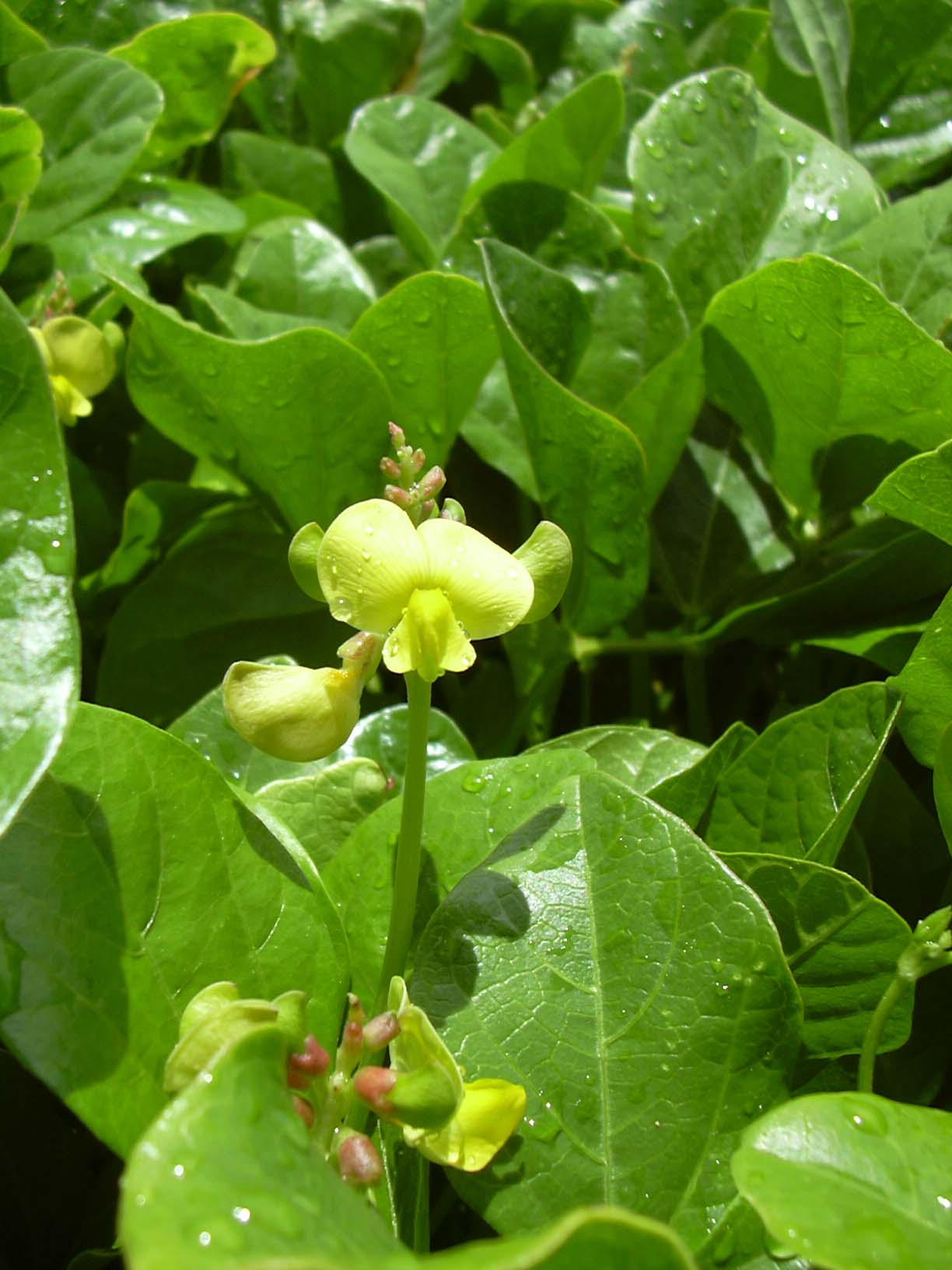 Vigna marina (flowers). Location: Maui, Puhilele Pt Haleakala National Park